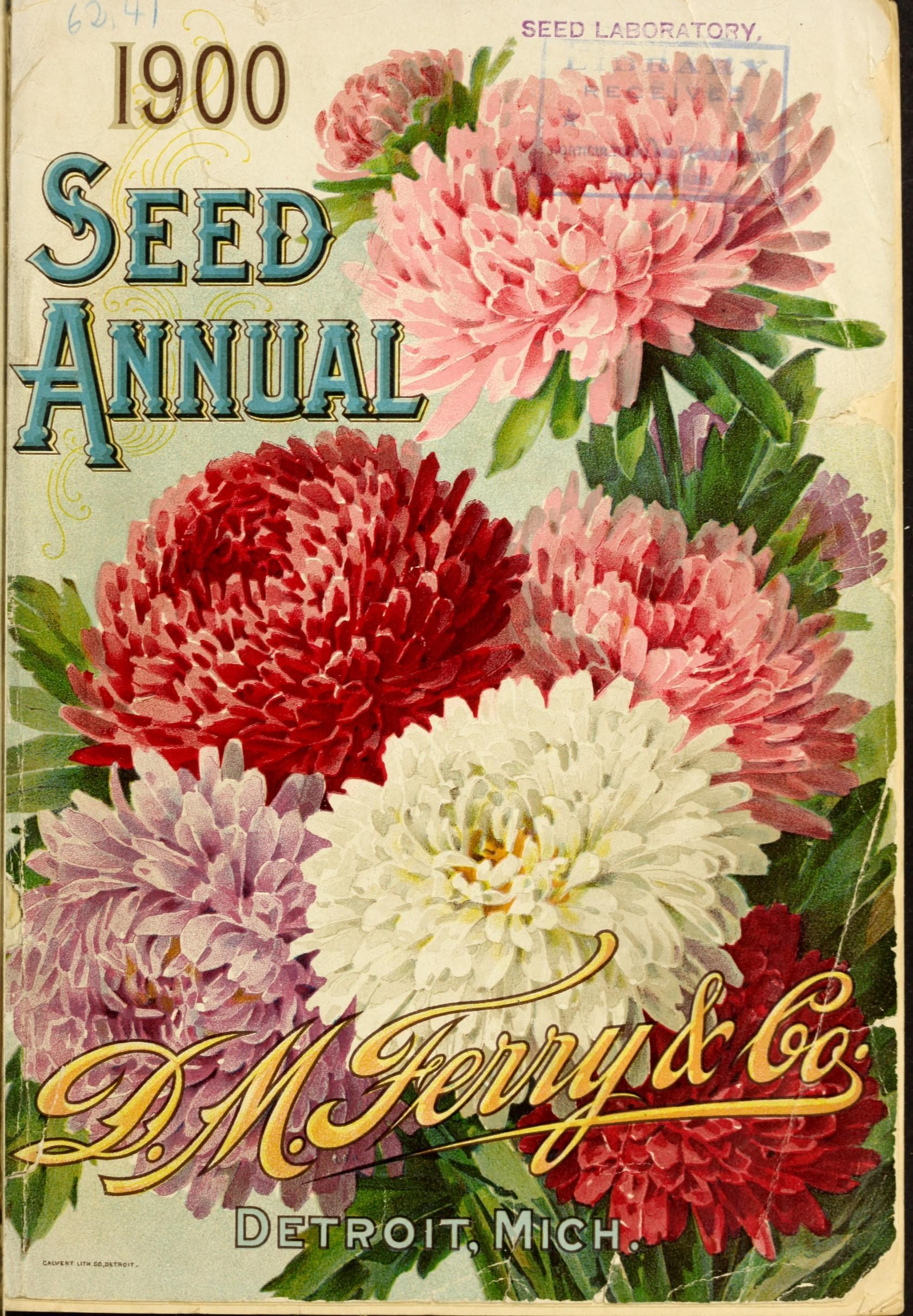 Seed annual. Garden Stories